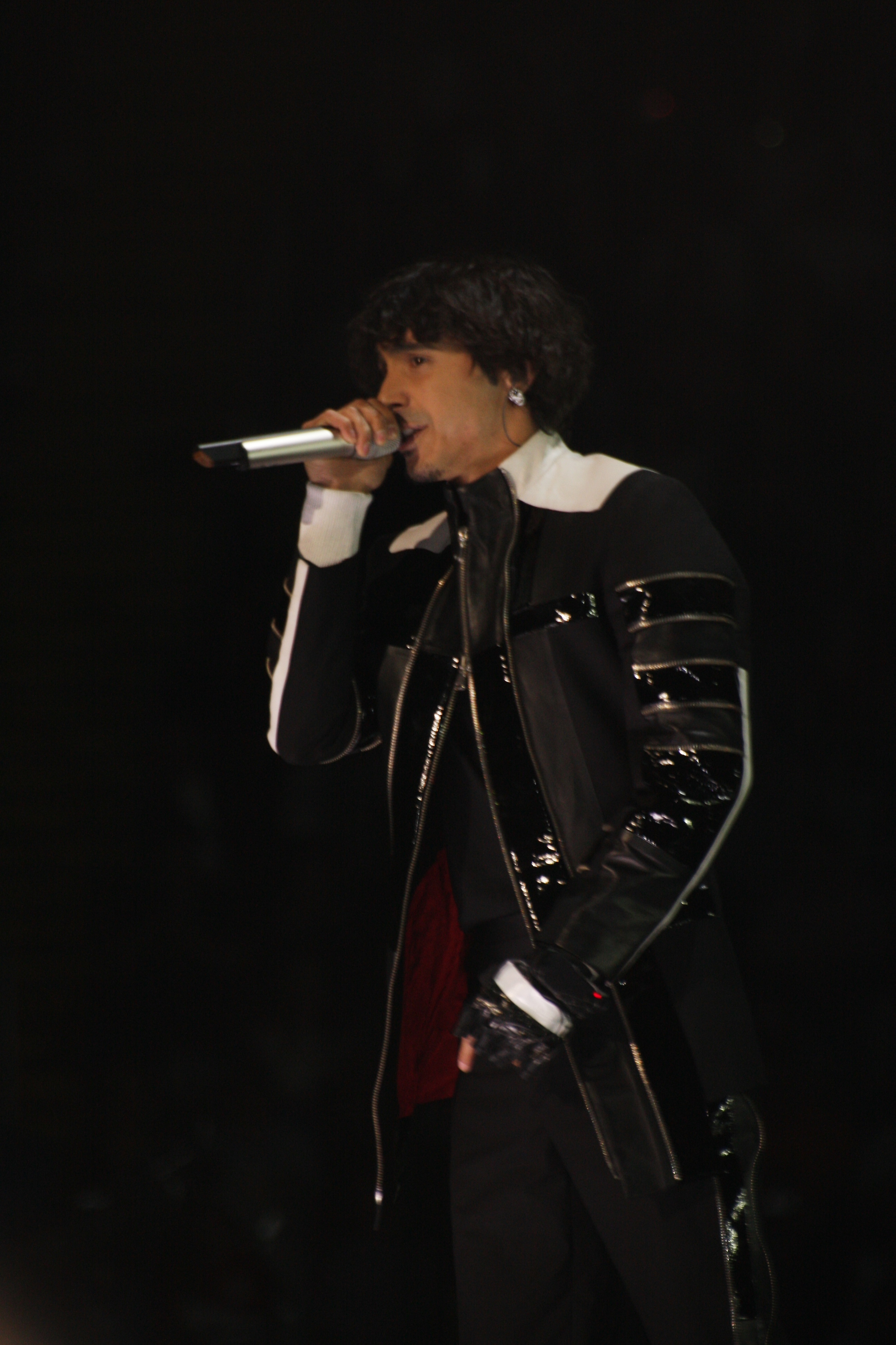 Manga, Turkey's artists at the ESC 2010, Telenor Arena, Norway.